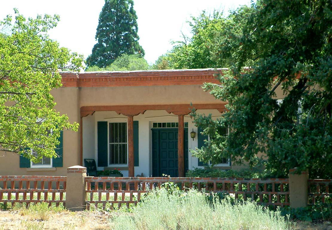 Terrirorial style house in Santa Fe NM, USA